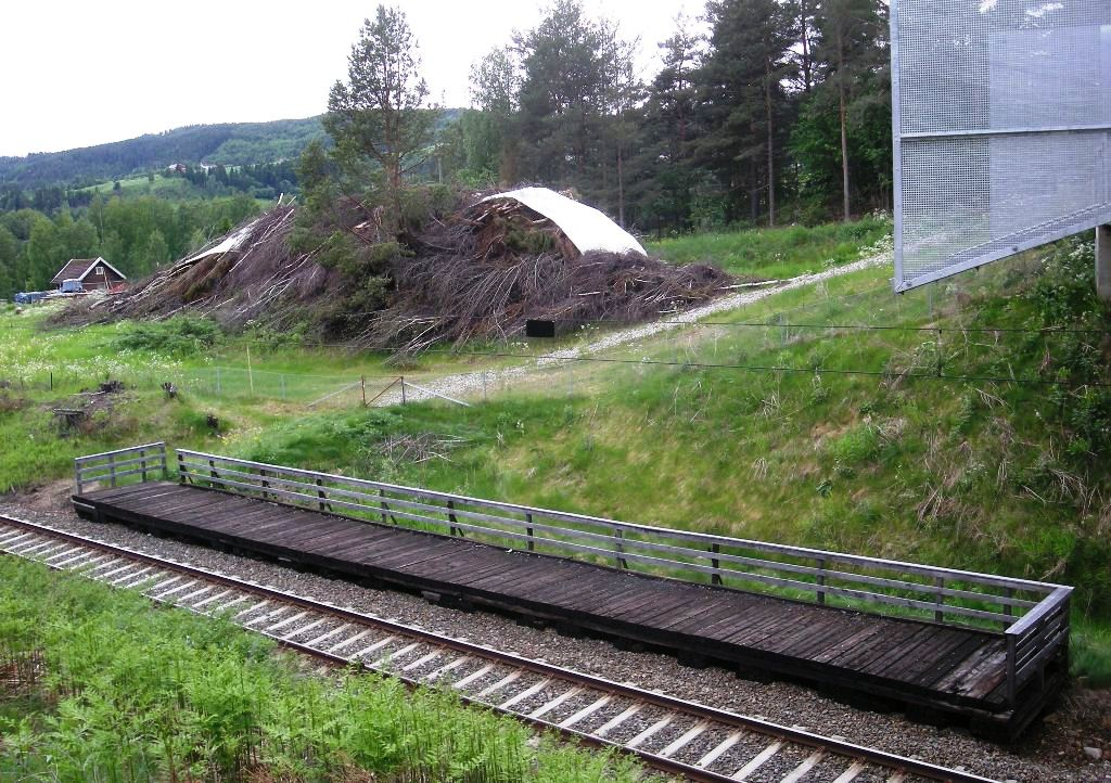 Nordtangen station on the Gjøvik line